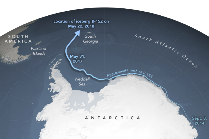 Route map of Iceberg B-15Z in Antarctica from 2000 to 2018. The last traceable piece of Iceberg B-15.